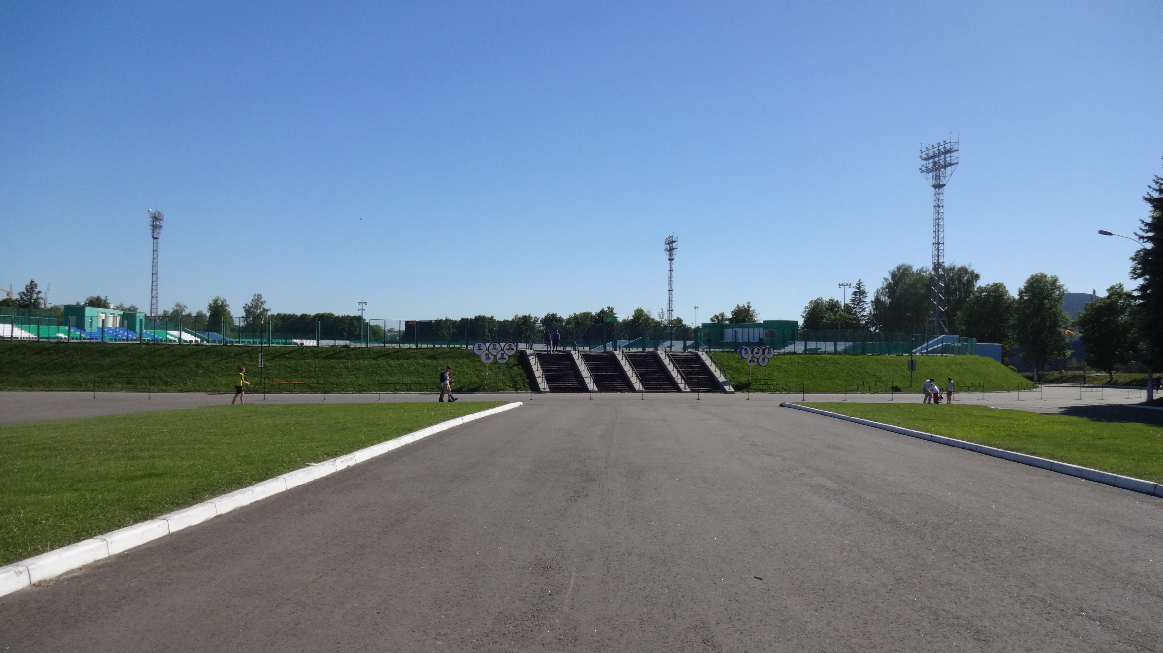 The Central Stadium of Oryol. General view.